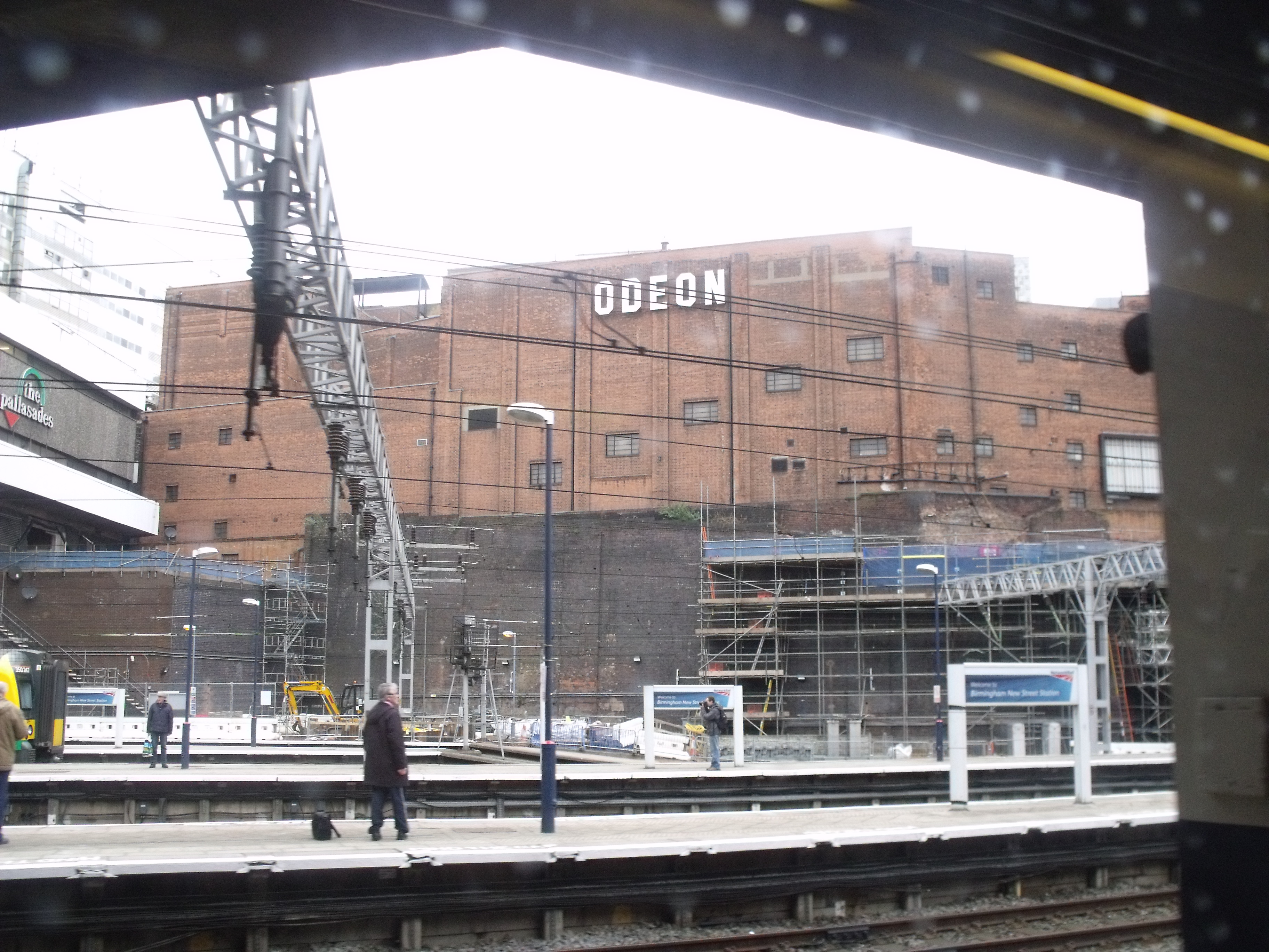 After getting back onto another London Midland Cross City 323 train, I got off at New Street, and didn't have to go far. The train to Tamworth (going to Nottingham) was on the next platform. Views from the train heading out including the Odeon. The Pallasades is on the left (currently half of what it was since they close most of the shops for the redevelopment of the station). A London Midland Class 350 is on the far left. 350247 A man on the right is taking photos. Will be a new path on that side of the station. Not sure when they will do it and remove the scaffolding.